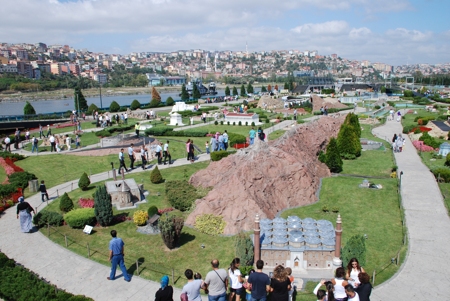 Miniaturk park, Istanbul